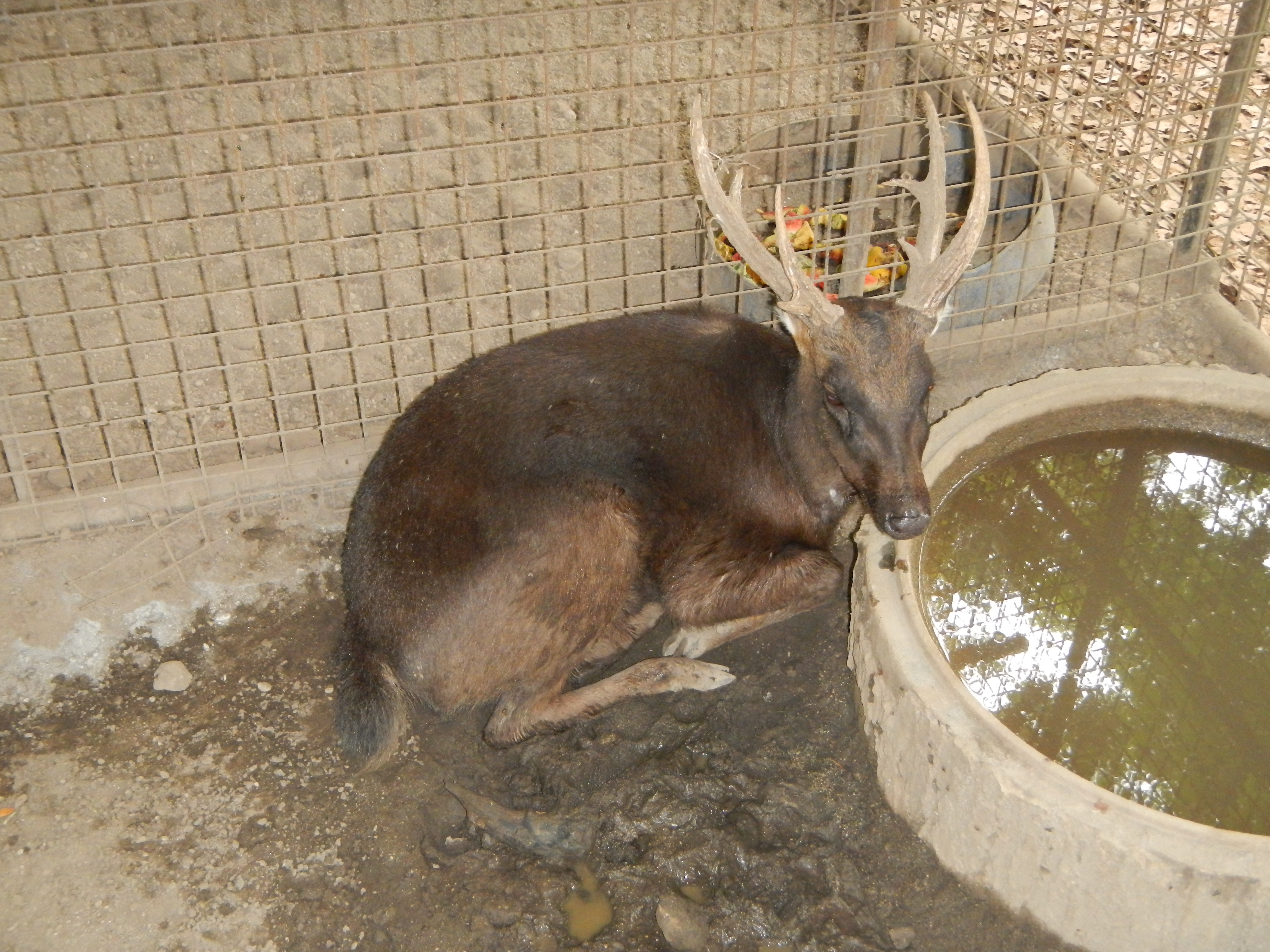 Philippine deer[1][2] The Philippine deer (Rusa marianna), also known as the Philippine sambar or the Philippine Brown Deer, is a species of deer native to the forests and grasslands on most larger islands of the Philippines,. The only major islands where it is not distributed are Negros, Panay, Palawan, Sulu, and the Babuyan and Batanes island groups. It is classified as Vulnerable by the IUCN due to its increasingly fragmented populations as a result of habitat loss and hunting. Ninoy Aquino Parks & Wildlife Center[3] (NAPWC) is a 64.58-hectare (159.6-acre) zoological and botanical garden located in Diliman,[4] Quezon City,[5] the Philippines